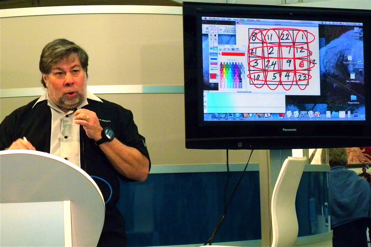 Steve Wozniak used his mathematical skills by asking his audience for a random number, and 42 was suggested. He used the number in creating a 4x4 "Magic Square" on a Modbook at the Axiotron booth at Macworld 2009.